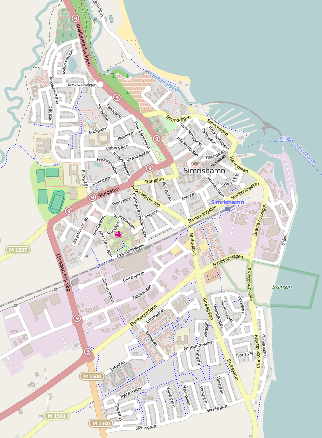 A map of roads and streets in Simrishamn